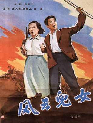 Poster for the movie Sons and Daughters in a Time of Storm. Out of copyright in the People's Republic of China.